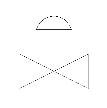 Symbol for pneumatic operated valve on P&ID